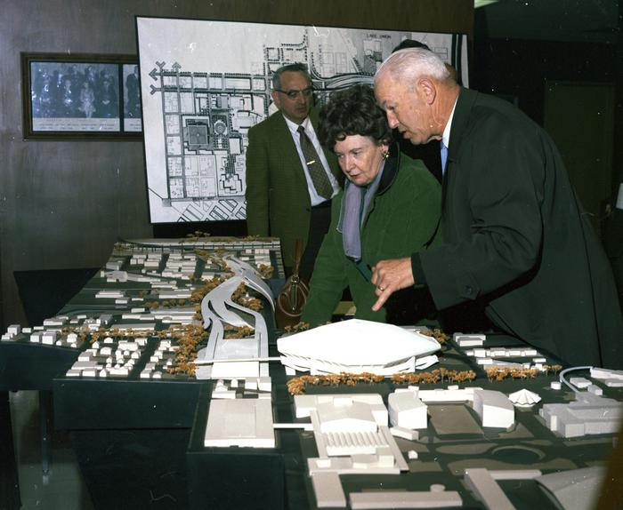 Model of the proposed, never-built Bay Freeway, Seattle, Washington, U.S., 1970.